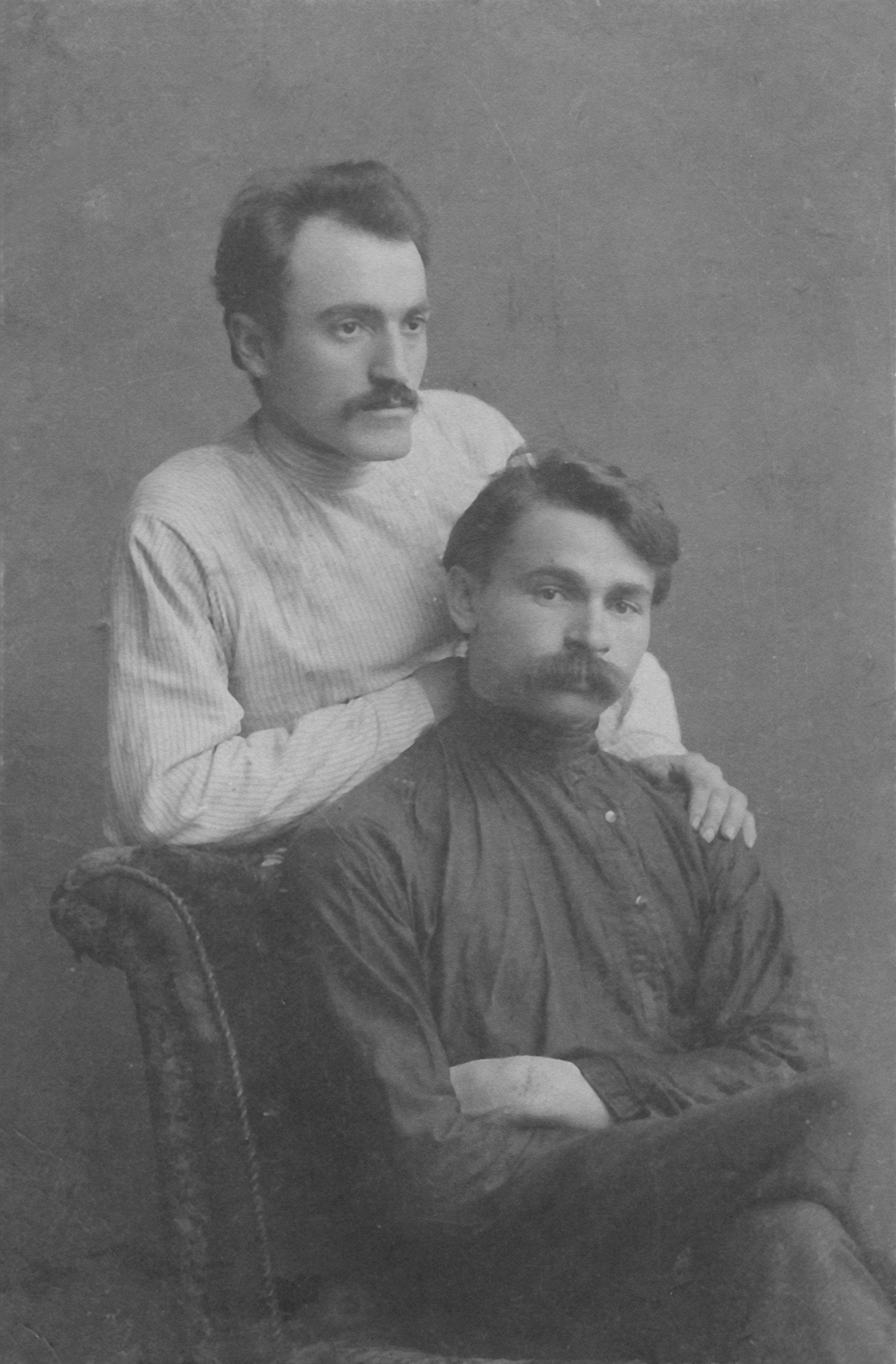 Josef Ringo (sitting on the right) with his friend